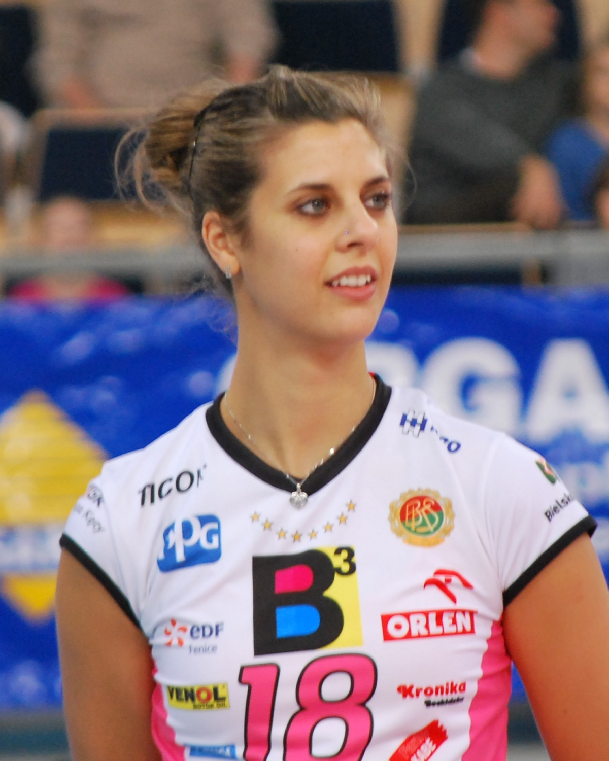 Yael Castiglione, volleyball player from Argentina